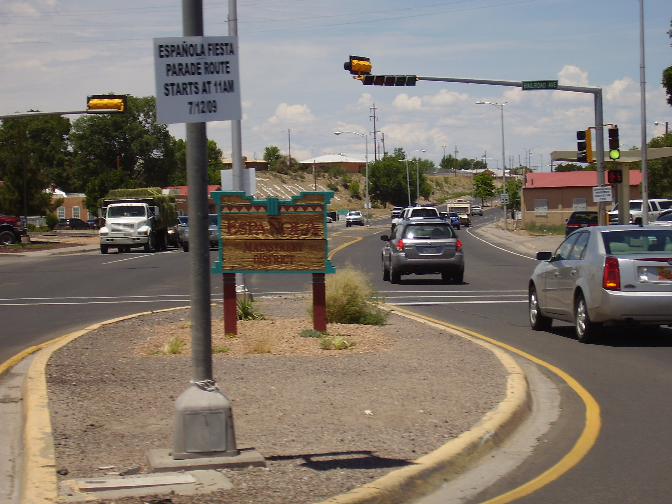 Main Street District of Española, New Mexico